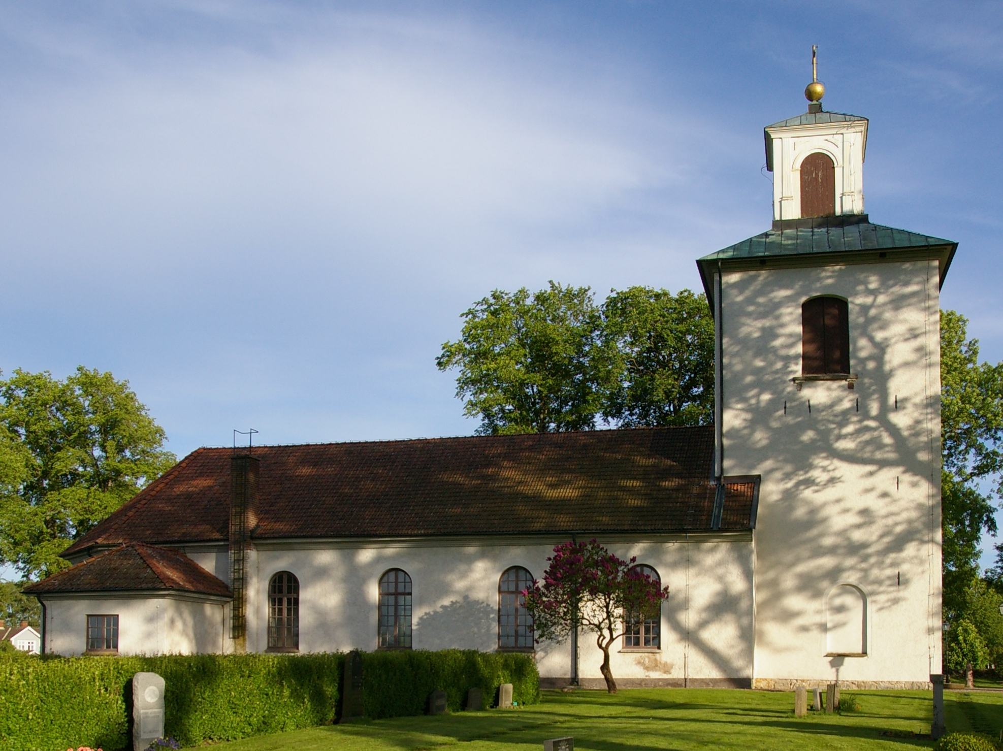 Karleby kyrka (Church of Karleby) is a church situated in the village of Karleby in Falköping Municipality in Sweden.